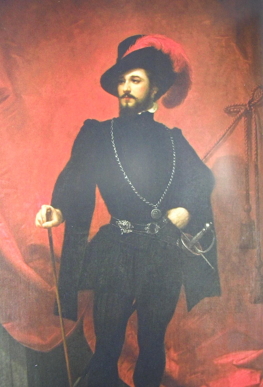 Portrait of Italian opera singer Giovanni Mario (1810-1883) as Don Giovanni in "Don Giovanni" by Mozart